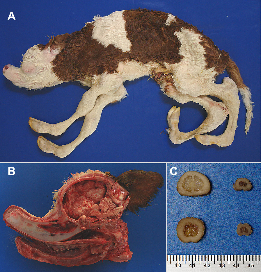 An AS affected calf with typical pathological findings. A – Overview: Note dolichostenomelia, convexity of the frontal bone, and kyphosis. B – Sagittal section through the head: Severe deformation (dent forming, brachygnathia inferior, compression of cerebrellum). C – Cross sections of metacarpus (on the top) and -tarsus (at the bottom); sections of an unaffected calf as a control on the left. Note the dysplasia of the bone of the diaphysis. It is mainly due to a decreased diameter whereas the width of the substantia compacta is normal.